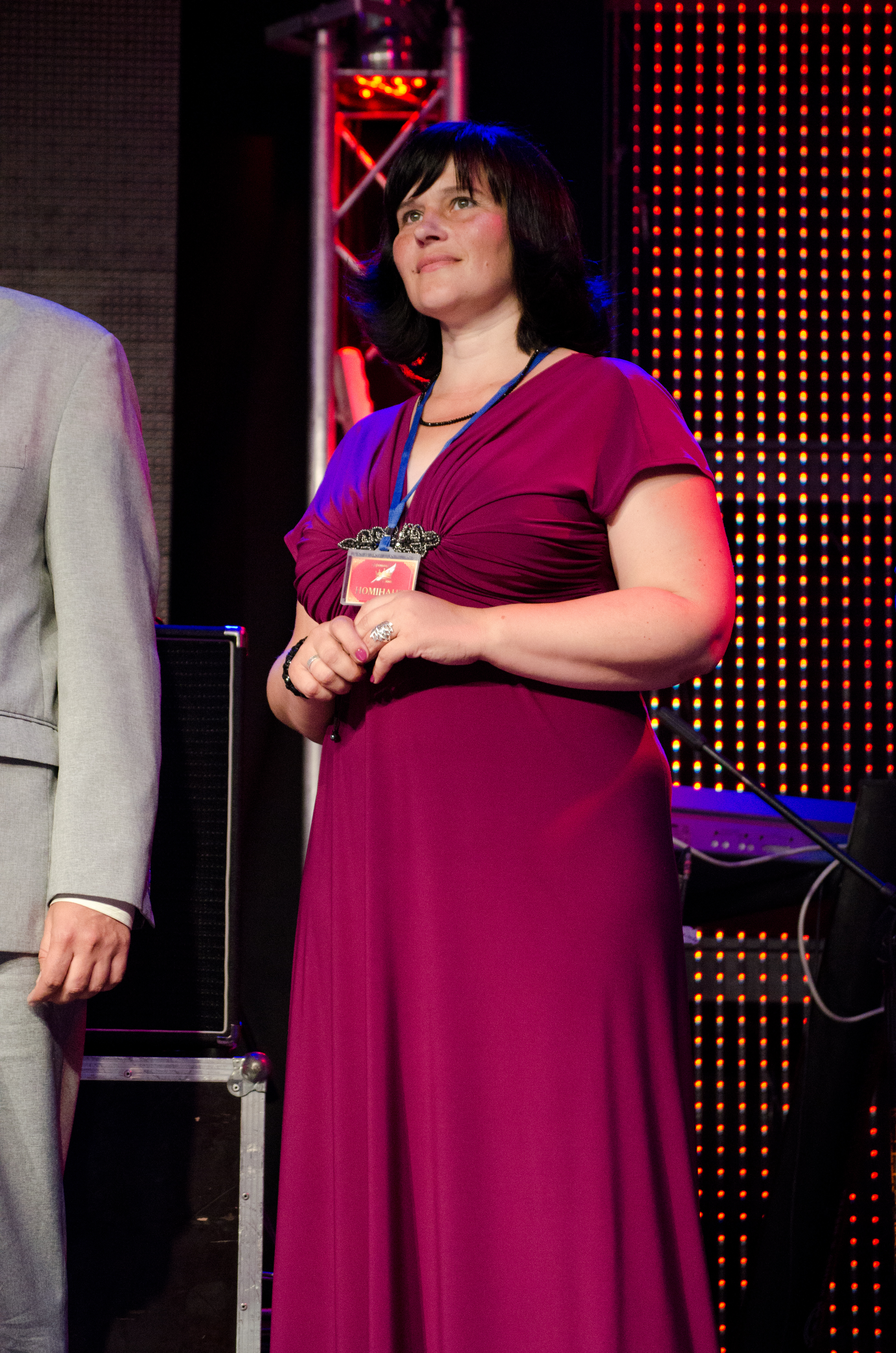 Koronatsiya Slova 2013 literature awards ceremony, Kiev, Ukraine